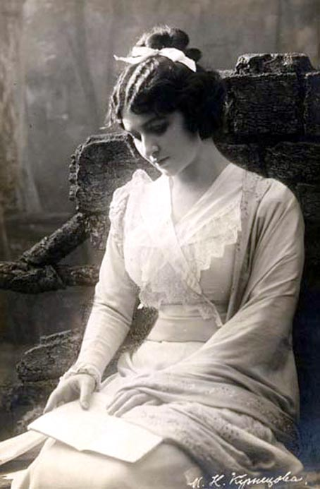 Maria Kuznetsova, the opera singer, as Mimi in La Boheme